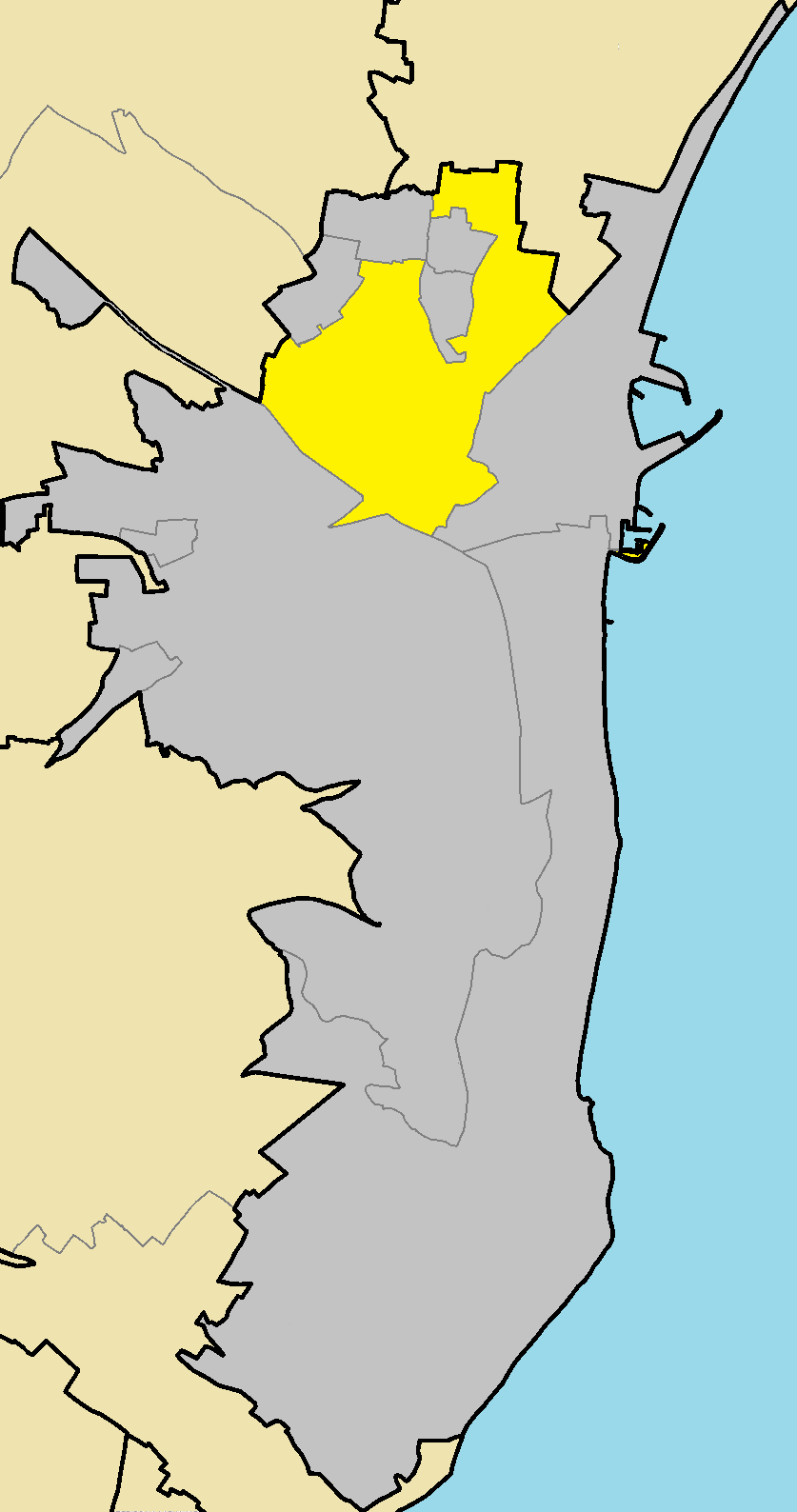 Sotiros in Larnaca Municipality.